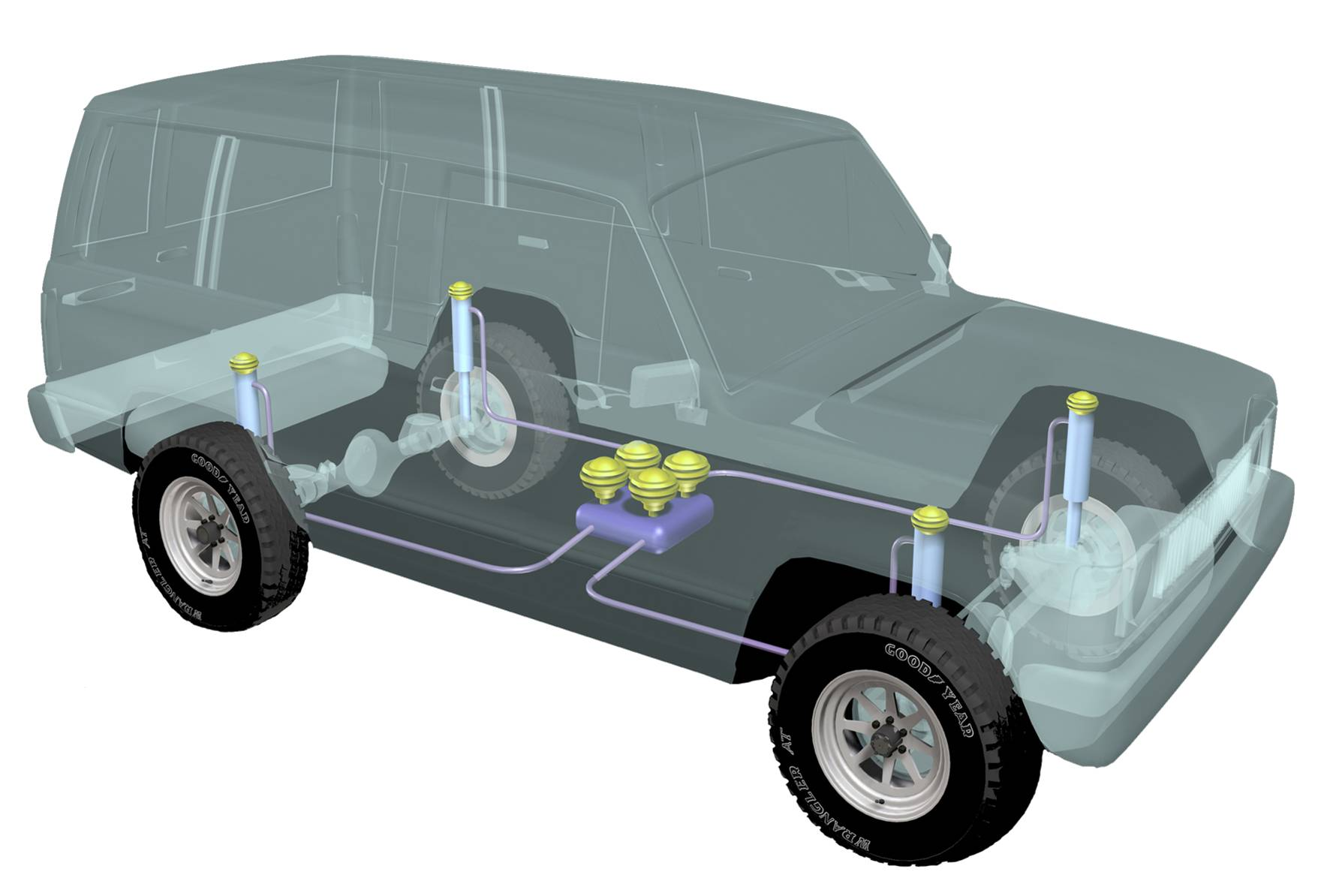 Hydraulic interconnected suspension system